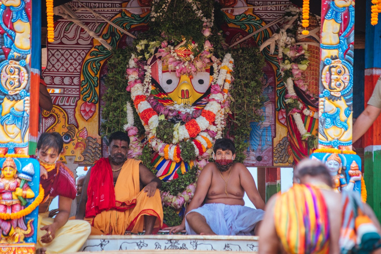 Ratha re maa